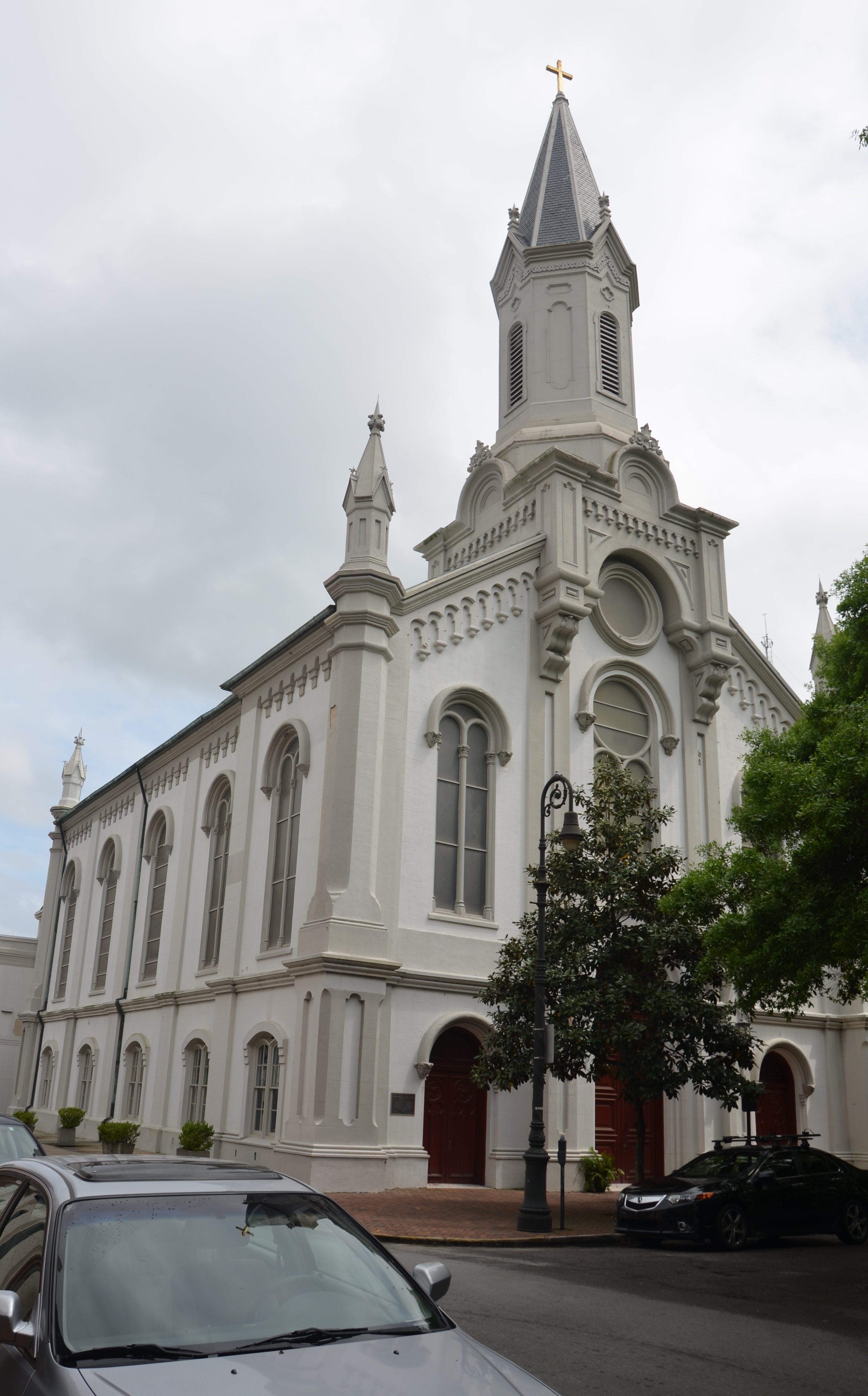 Midtown, Savannah, GA, USA